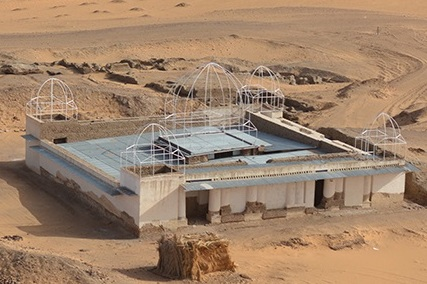 Based on